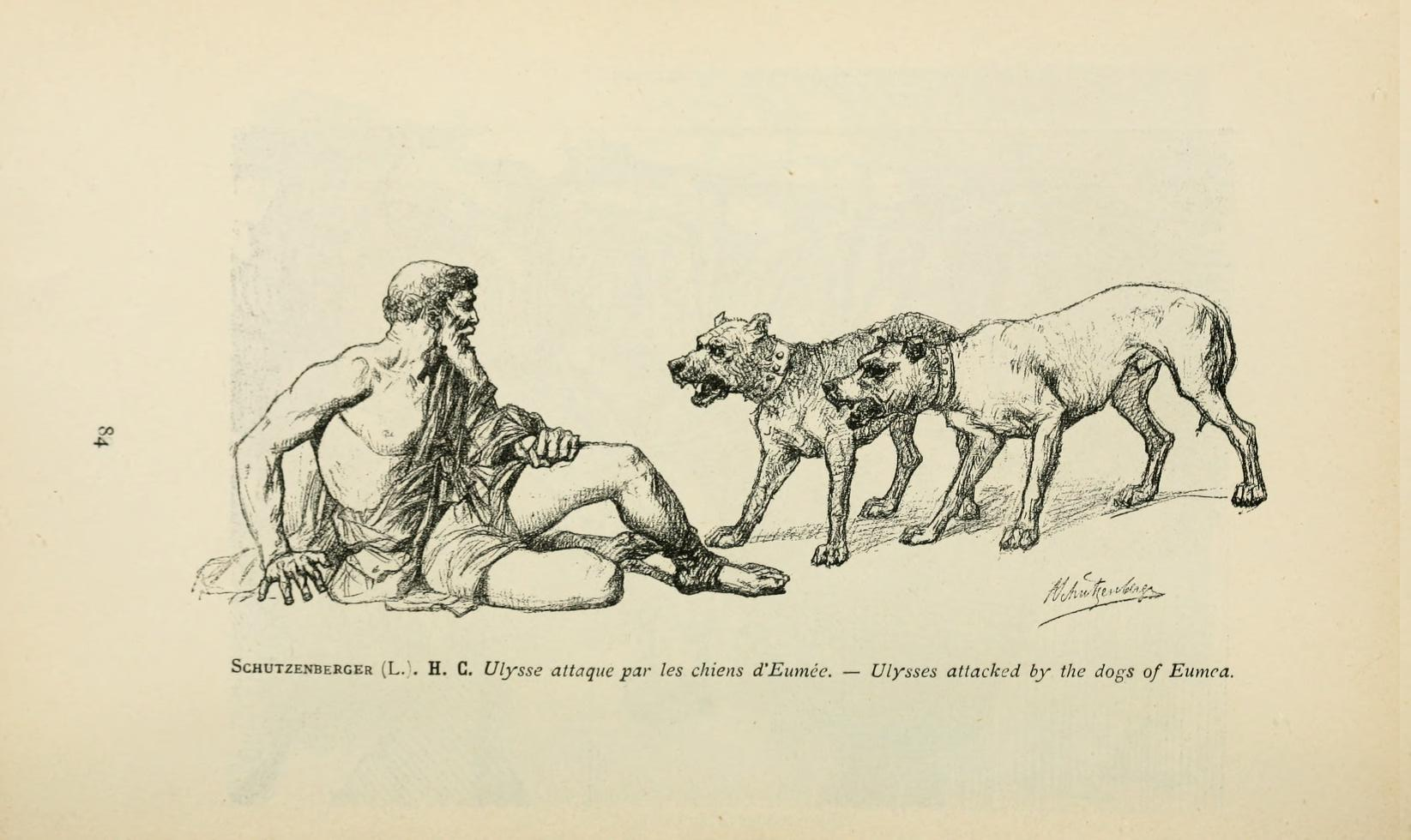 "Ulysses attacked by the dogs of Eumaeus", Odyssey 14.29-40.